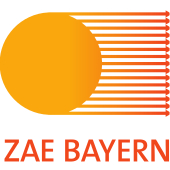 Dies ist das Vereinslogo. Es handlet sich um eine Eingetragene Wort und Bildmarke. Symbolisch soll es die Sonne und 15 Energiestrahlen darstellen. DPMAregister